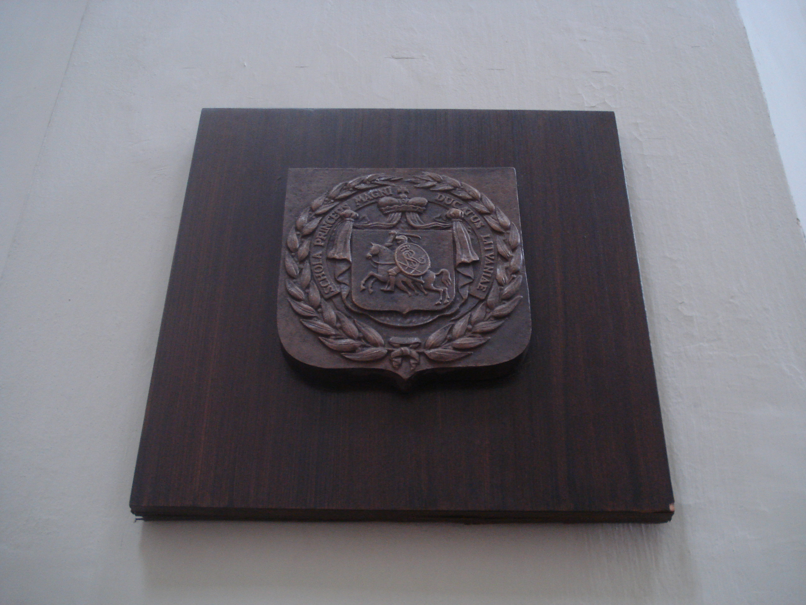 Board of the Principal School (Szkoła Główna; Schola Princips Magni Ducatus Lithuaniae) in the Church of St. Johns (Vilnius)